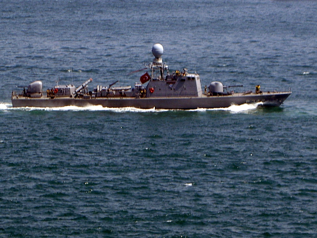 Turkish patrol boat P-342 Tayfun